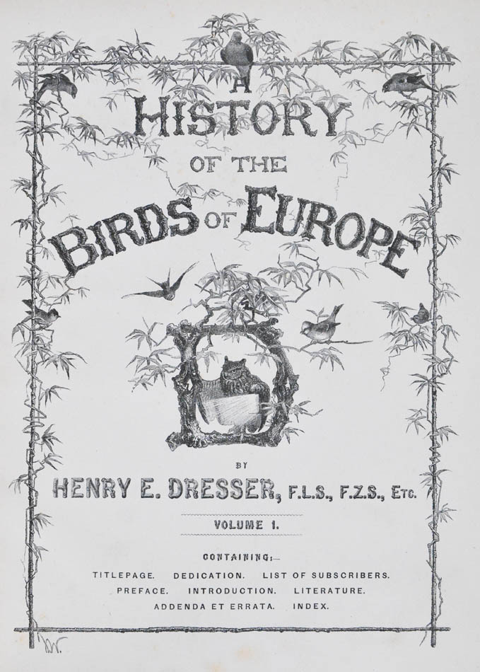 History of the Birds of Europe by Henry Eeles Dresser, title page of volume1